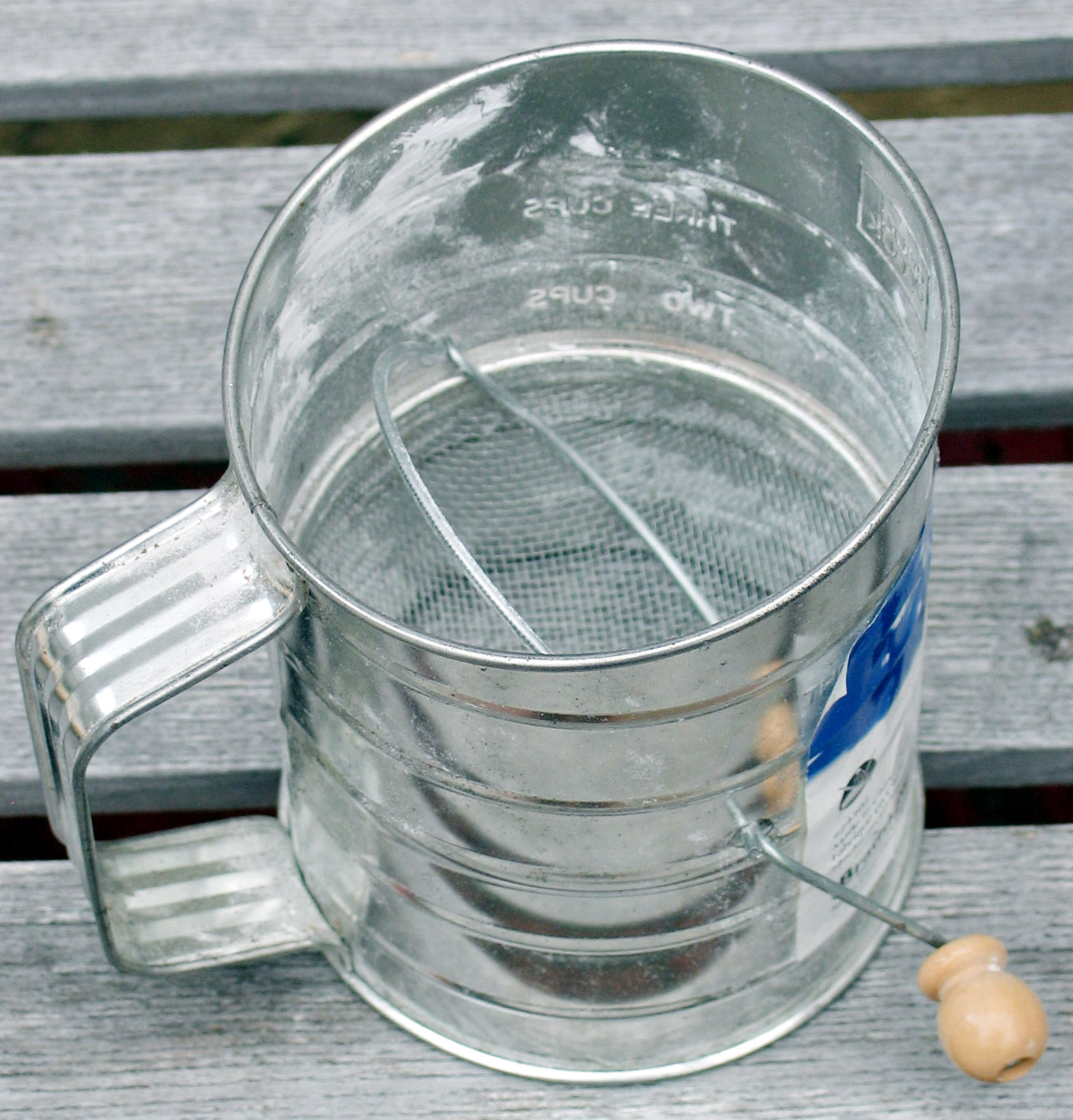 This is a sifter.